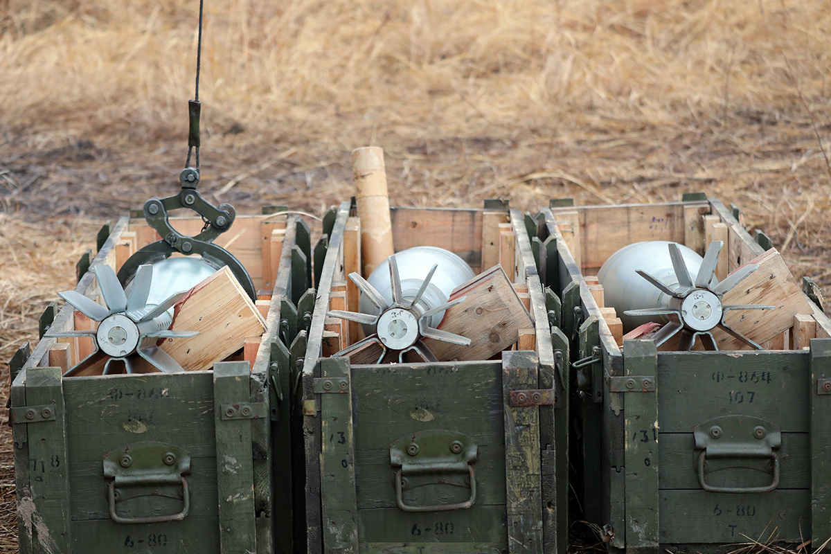 305th Artillery Brigade's exercise. 2S4 ammunition.